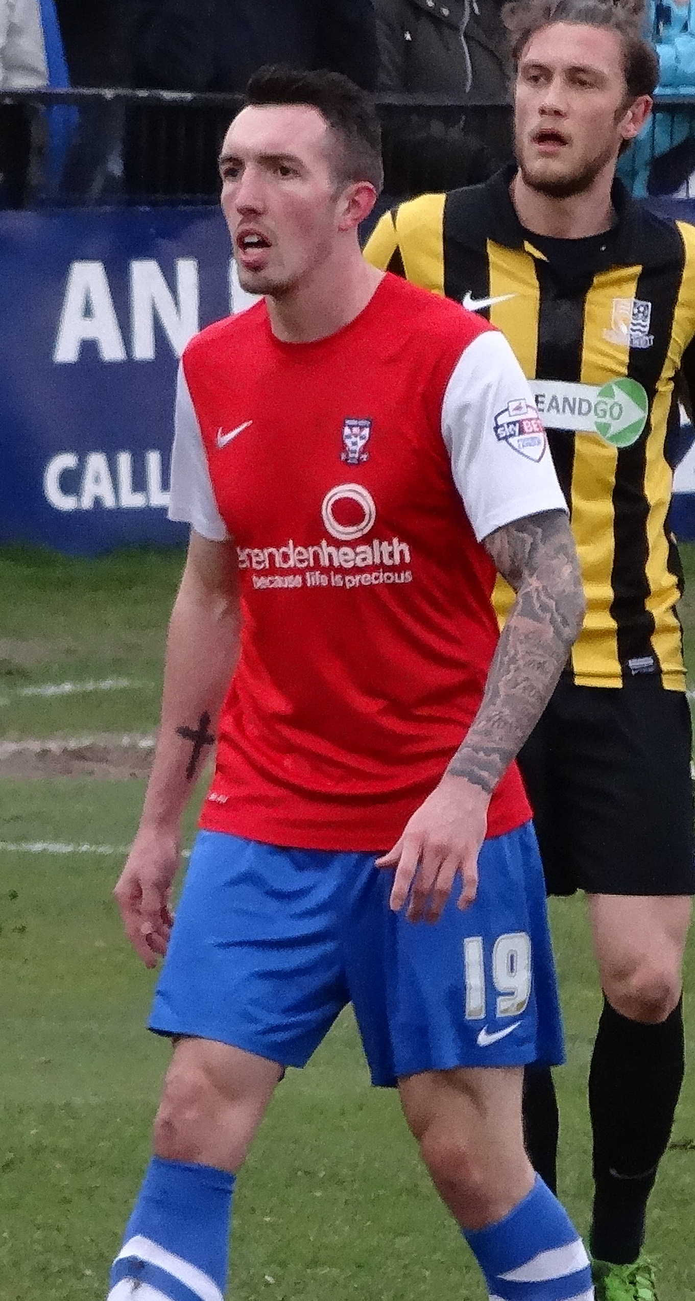 Ryan Bowman playing for York City against Southend United at Bootham Crescent, York on 22 February 2014